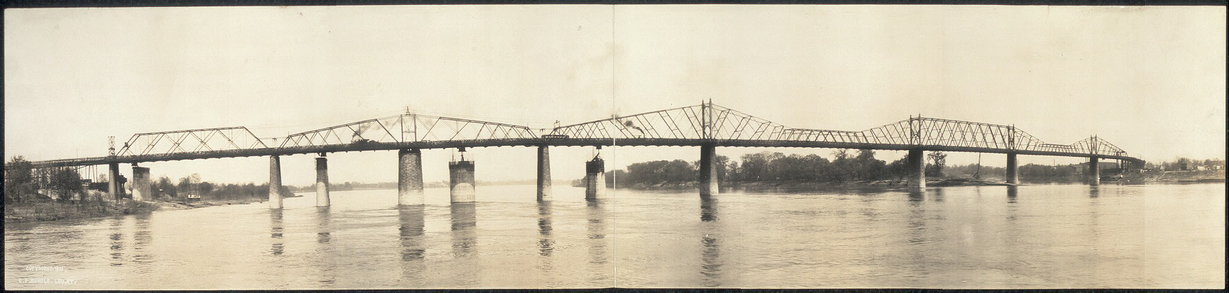 The original Kentucky and Indiana (K&I) Bridge (opened 1886) connecting New Albany, Indiana (left) and Louisville, Kentucky (right) Concrete for the piers of the new bridge was mixed on shore and transported on push cars along a narrow gauge track laid on the upstream highway lane. Four piers of the new bridge can be seen here. Ohio River mile 607 ca 1911